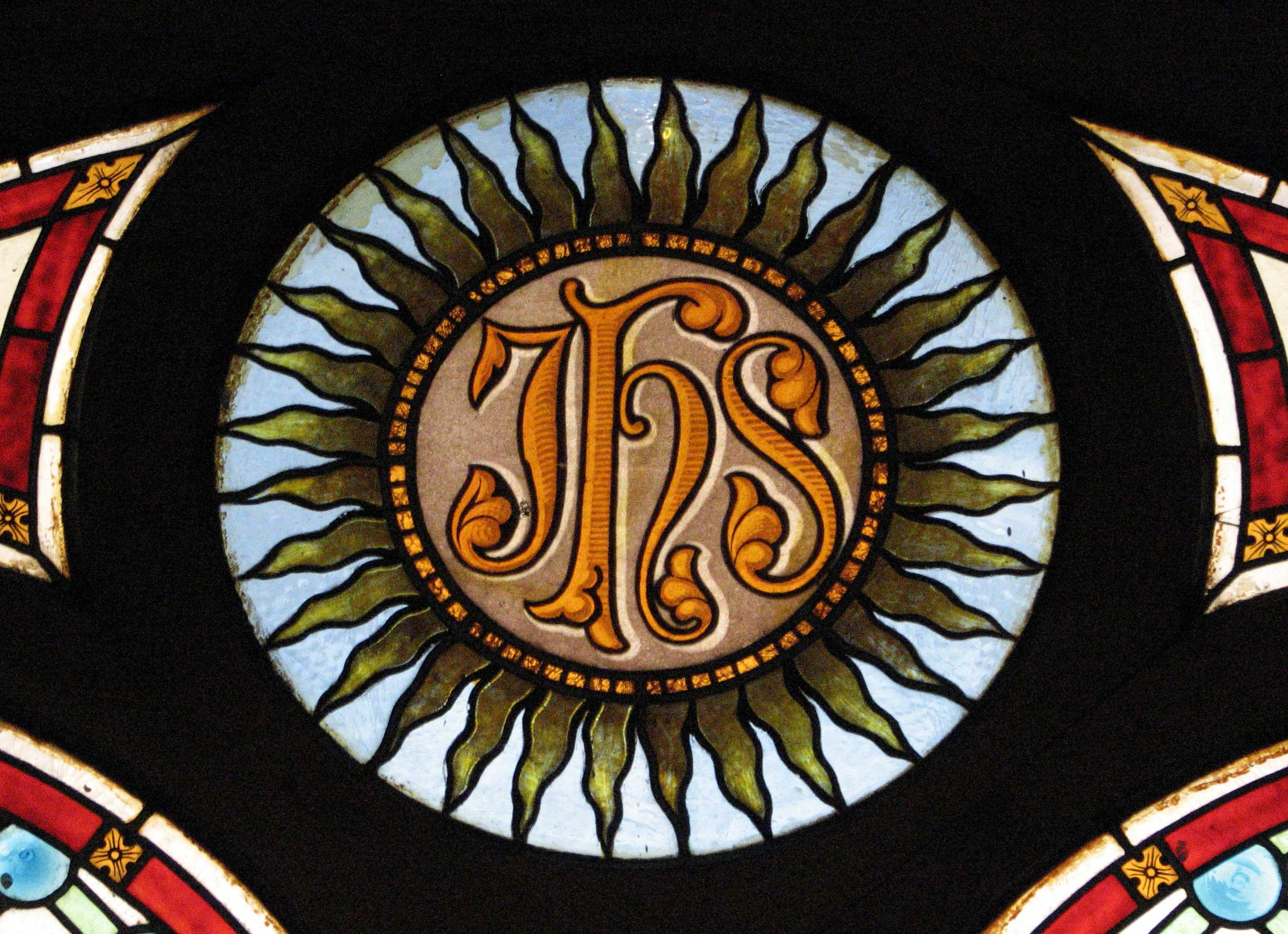 Stained glass window, the Basilica of St. Louis King in Katowice Poland, XX century